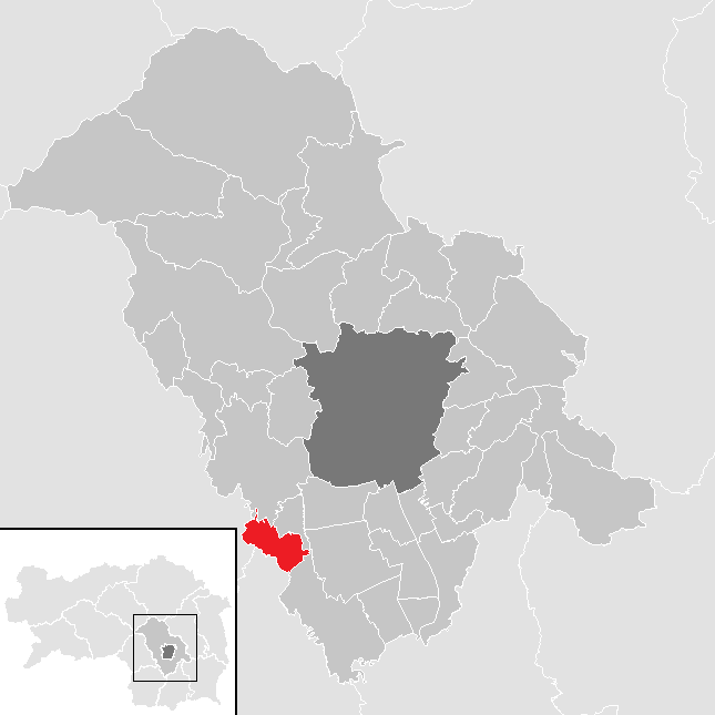 District Graz-Umgebung, Styria